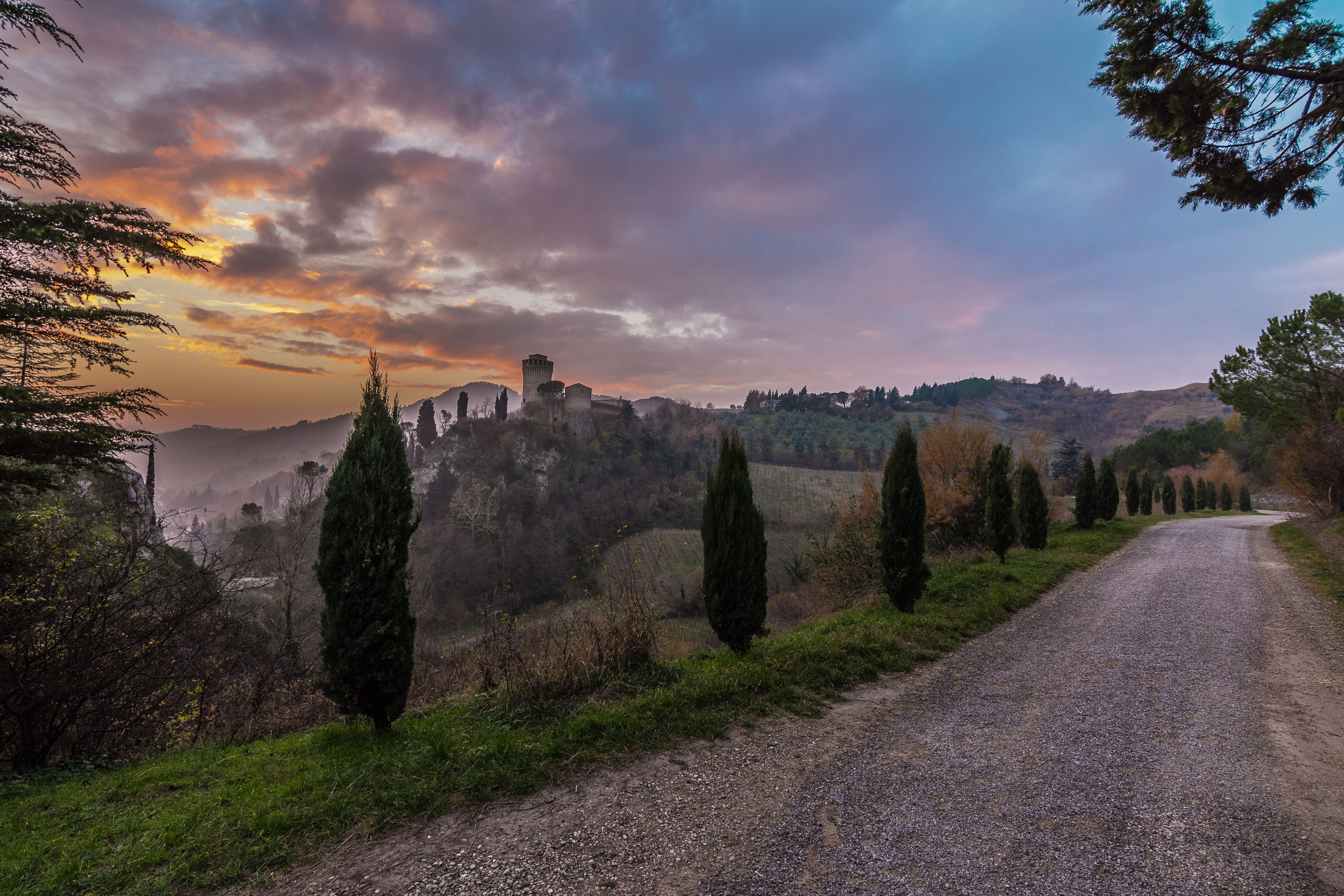 Panorama of the fortress - Rocca Manfrediana - Brisighella (RA) - Emilia-Romagna This is a photo of a monument which is part of cultural heritage of Italy.